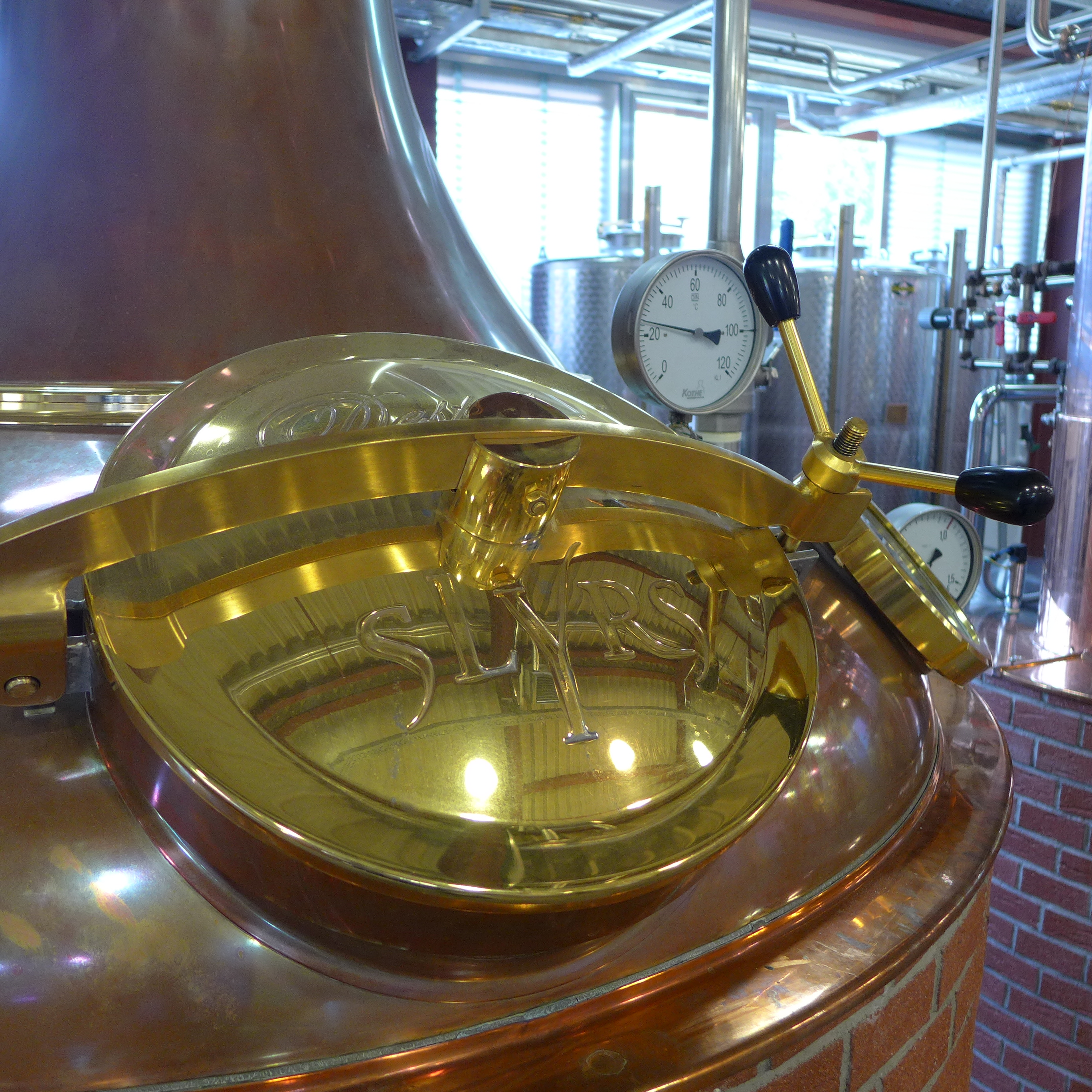 Detail of one of the pot stills inside the main building at Slyrs, a whisky distillery in Schliersee, Bavaria, Germany.